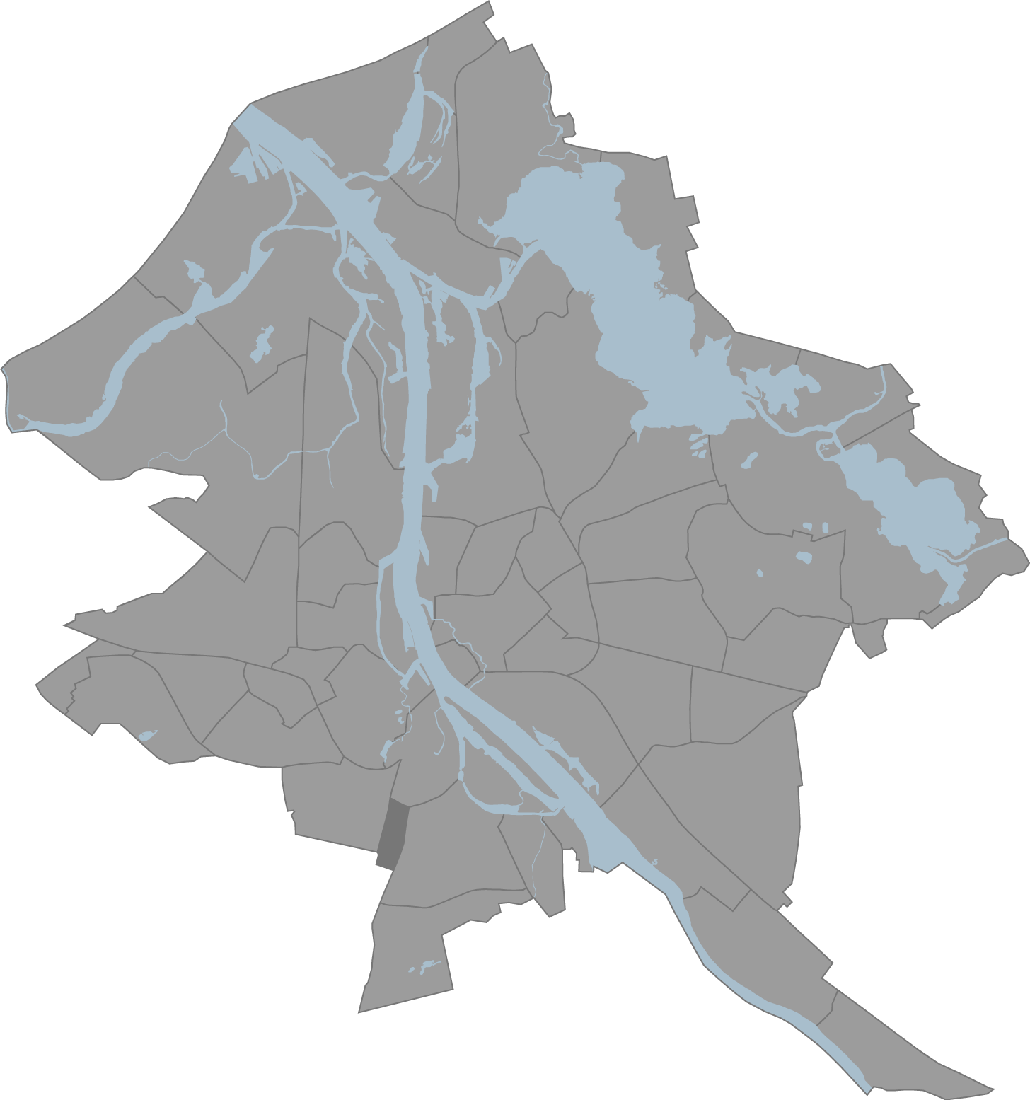 A map of Riga, Latvia with the eponymous commune highlighted